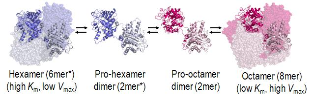 The PBGS quaternary structure equilibrium includes an inactive hexamer (PDB id 1PV8) that does not have subunit interactions necessary for an ordered active site lid. Dissociation to the pro-hexamer dimer can be followed by a conformational change that reorients the two alpha/beta-barrel domains to form the pro-octamer dimer. Association of pro-octamer dimer to octamer (PDB id 1E51) includes formation of subunit interfaces that support order in the active site lid.